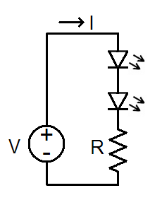 LED connected in series